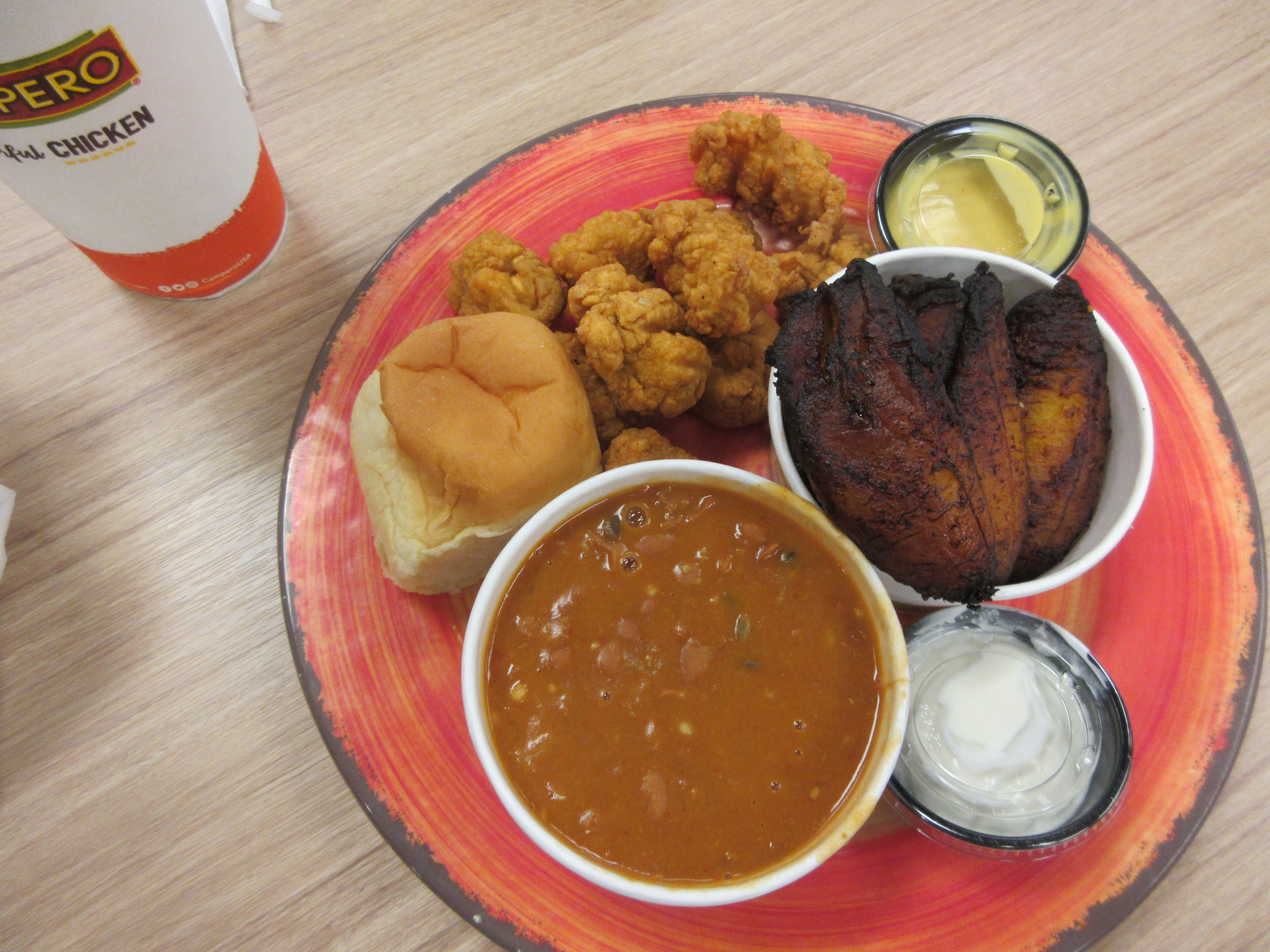 At "Pollo Campero" restaurant, Kenner, Louisiana. Meal of "Camperitos" boneless chicken wings, beans, fried plantains. Photo by Infrogmation of New Orleans, September 2018. Free reuse with attribution in accordance with cc-by-sa-4.0 license. Reuse without photographer attribution is a violation of copyright.